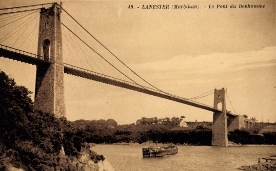 "Bonhomme" bridge in Lanester, Morbihan, France